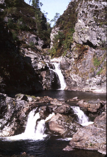 Falls of Tarf. This was the scene of a well known painting by W.Leitch of Queen Victoria fording the river Tarf on her traverse of Glen Tilt on the 9th Oct. 1861.(before the present Bedford Bridge). The Duke of Atholl offered to lead her pony, but she rejected him, "I prefer Brown." said she. The party is led by two pipers, up to a sensitive area, in the icy waters of the Tarf!